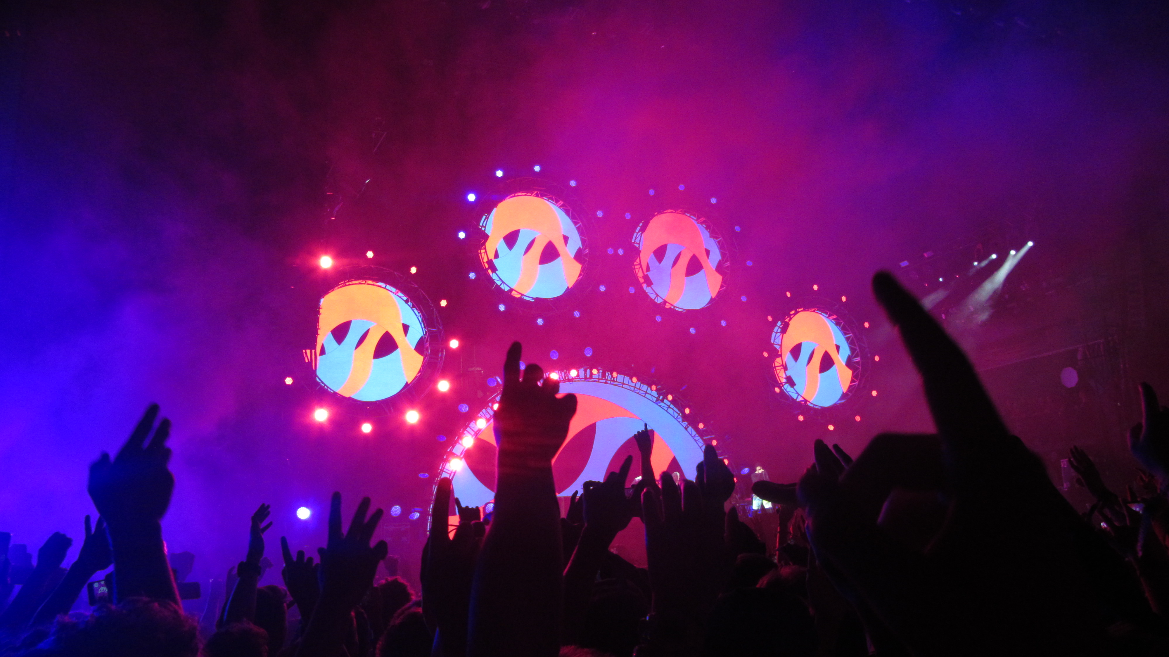 A shot I took at Leeds Festival this year.